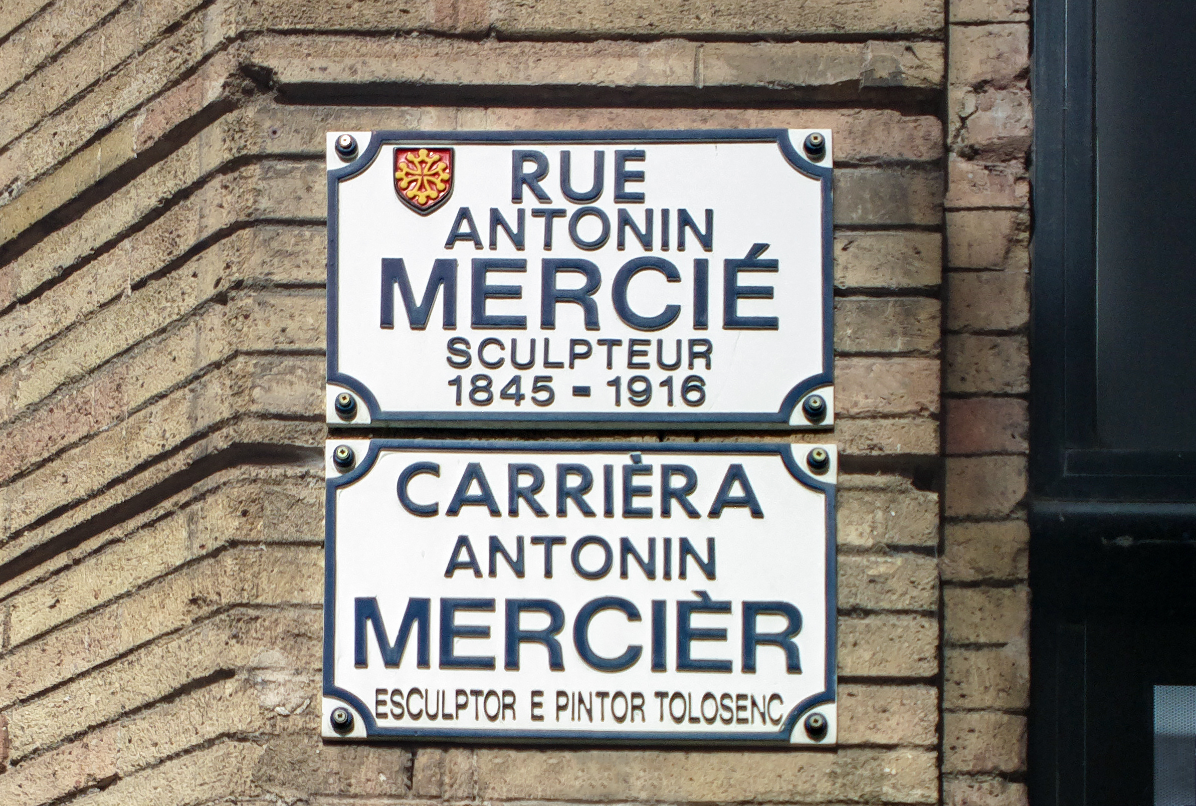 Street name sign in Toulouse. They have the particularity of being: in French and Occitan. Rue Antonin-Mercié.